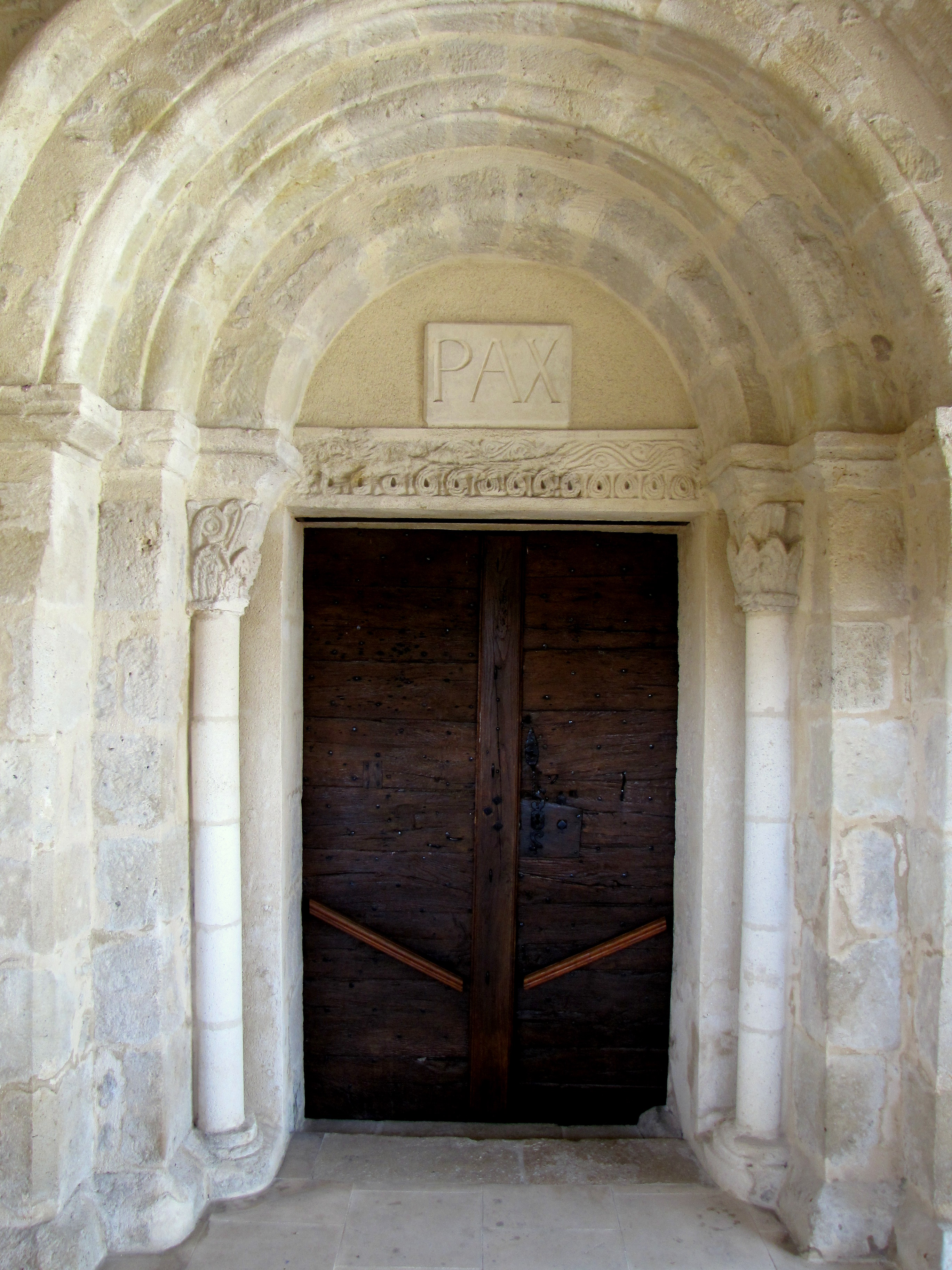 Église Saint-Sulpice de Brannens